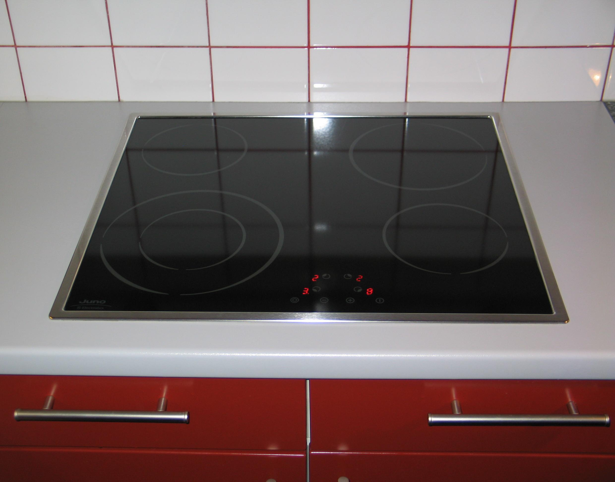 Ceran surface with top mounted integrated controls. Picture taken (29 Dec 2005) and uploaded by Roger McLassus